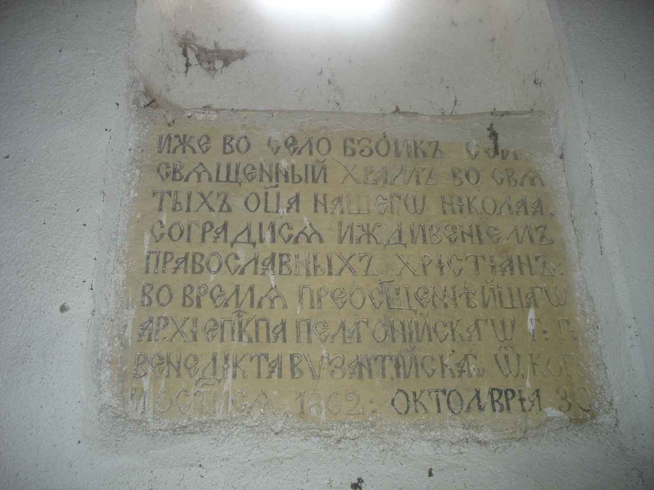 Inscription with the year of the building of the church, carved on the wall